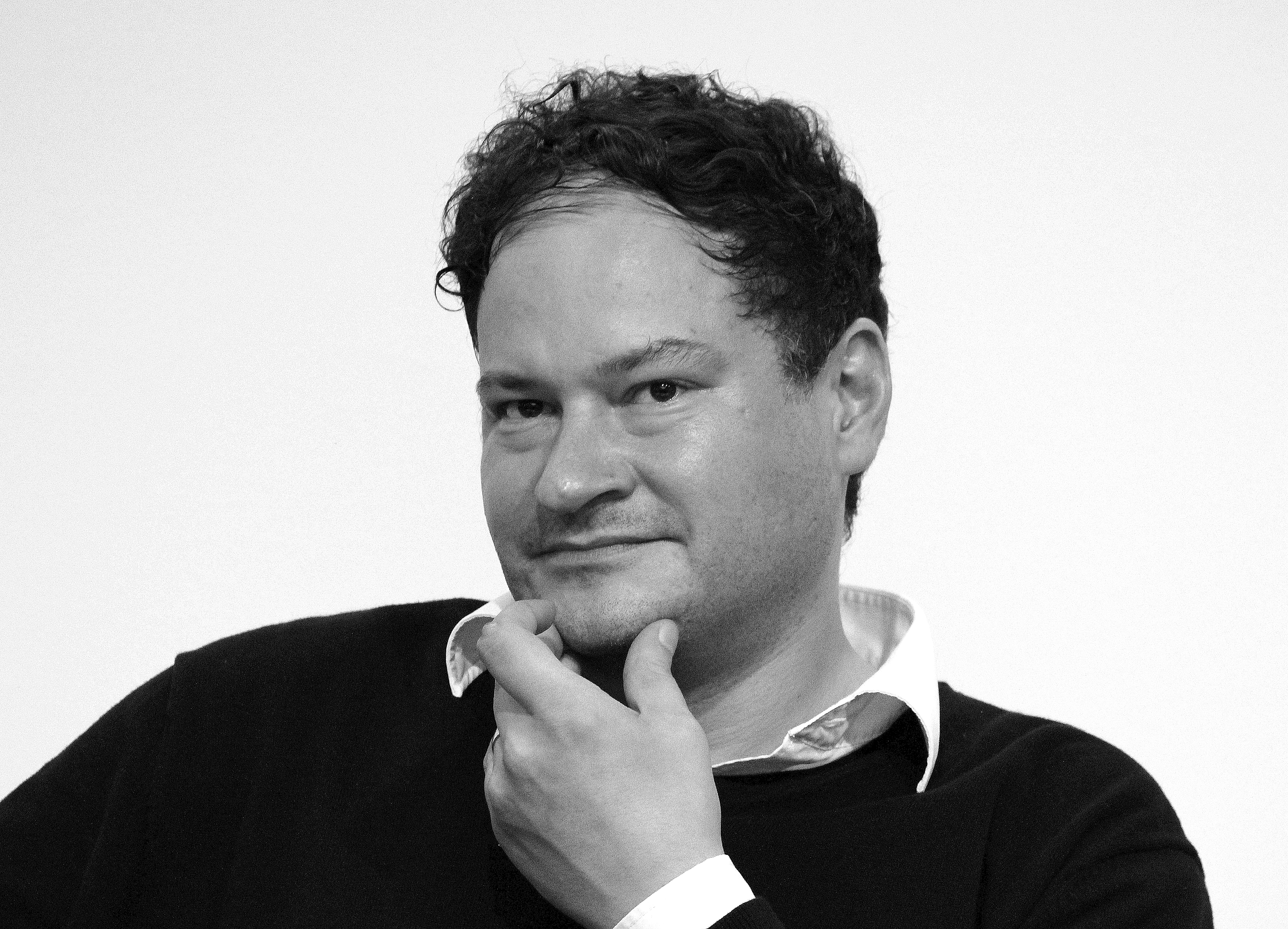 Thomas Melle Frankfurt Book Fair 2018